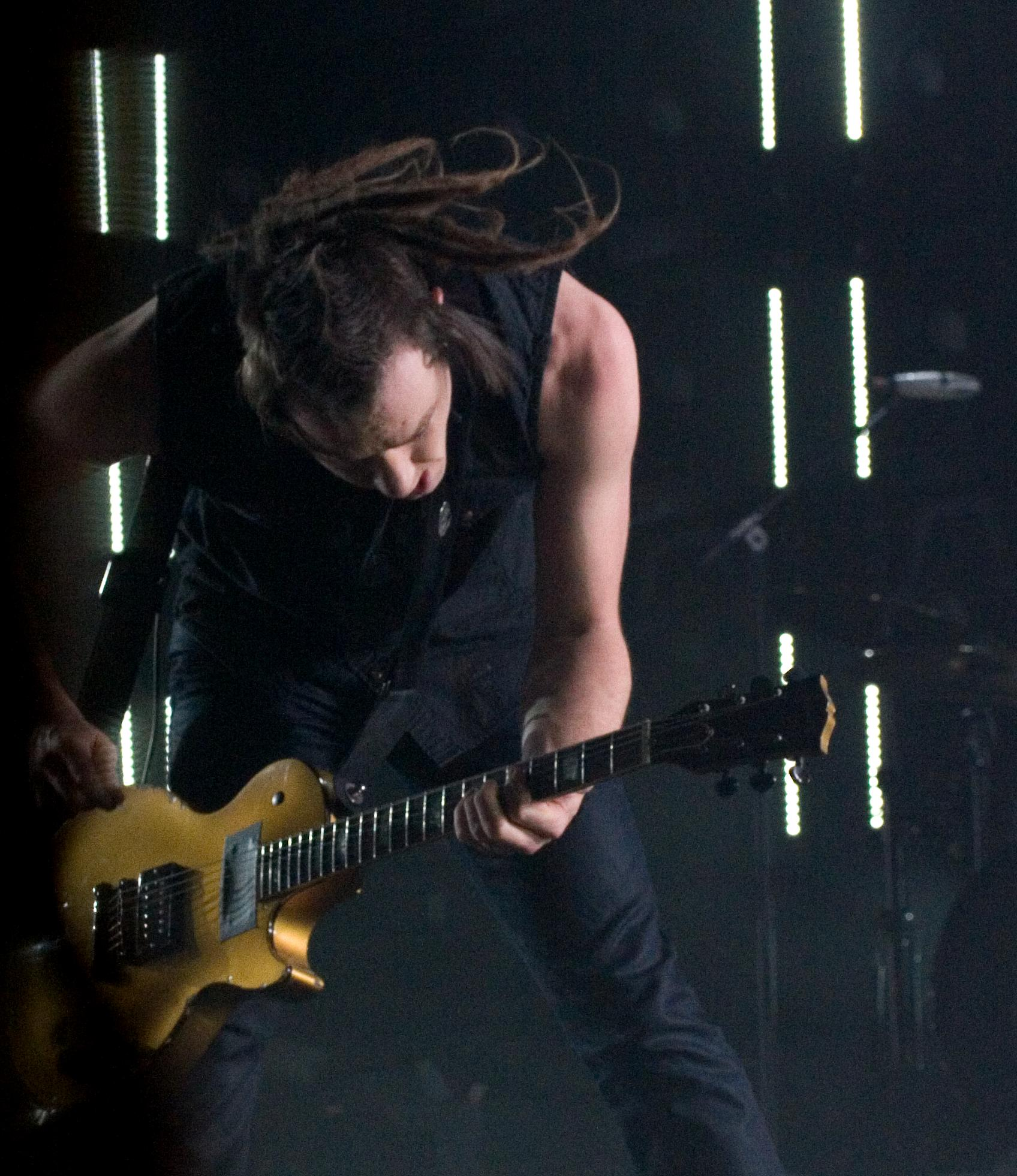 Robin Finck with Nine Inch Nails, Lights in the Sky Tour, Victoria BC December 5 2008. (image shot by Fiona Bowie (gebgdc)